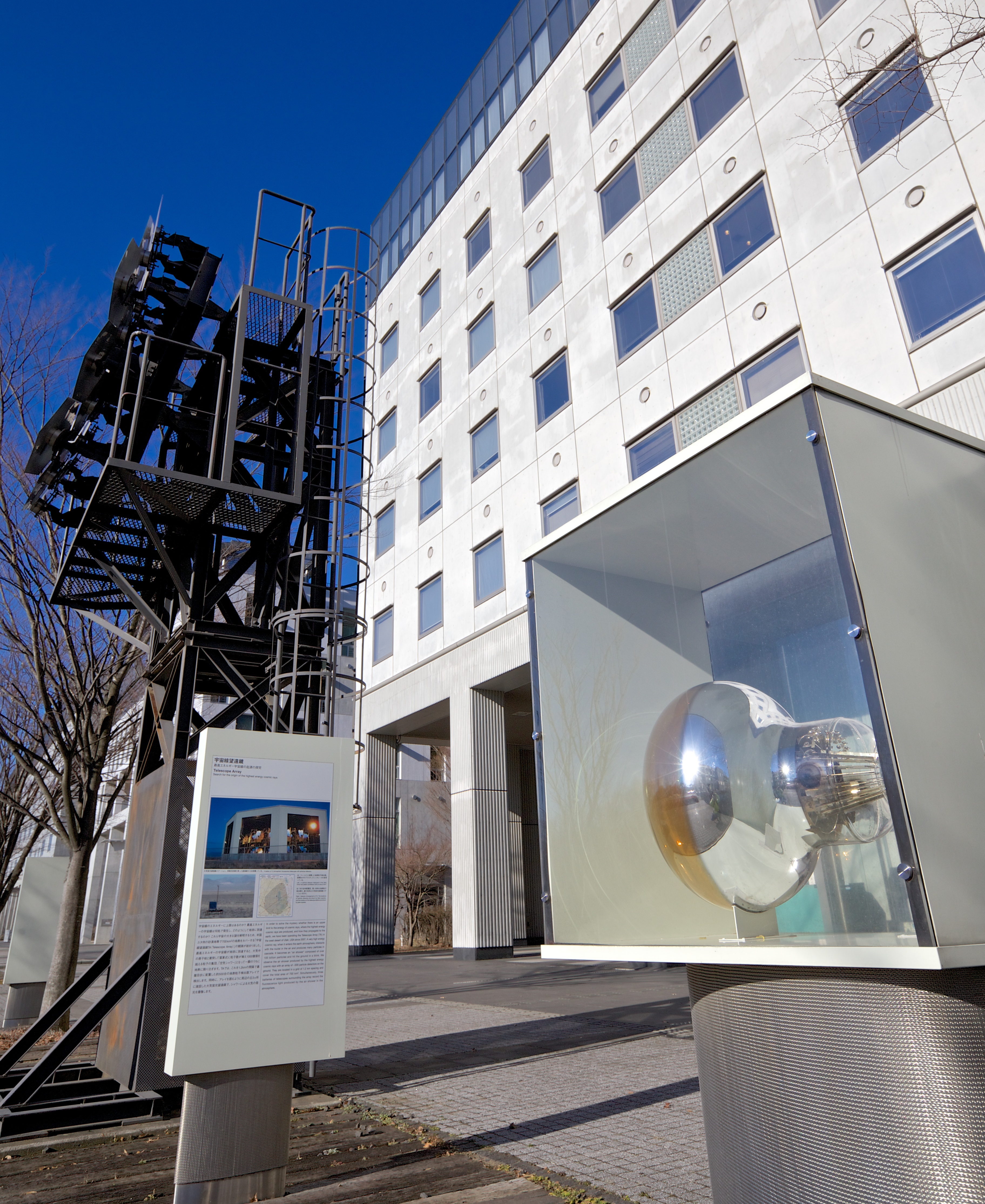 Institute for Cosmic Ray Research at the Kashiwa campus of the University of Tokyo.